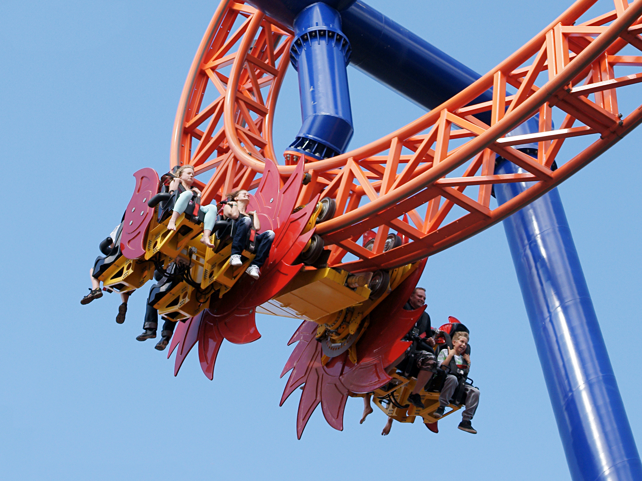 People riding Kirnu, a steel roller coaster in Linnanmäki.